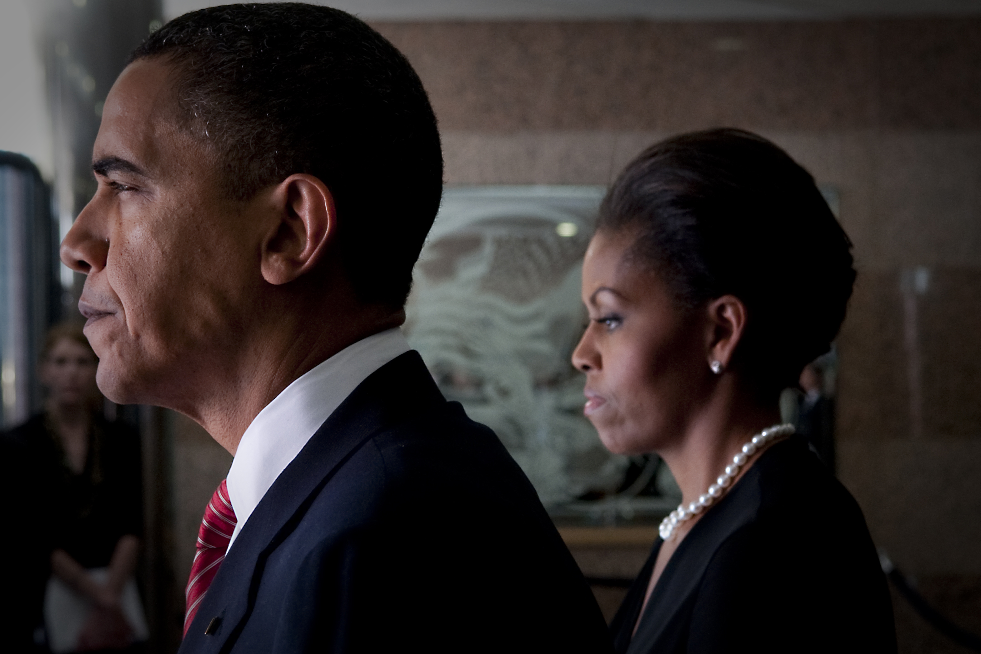 President Barack Obama and First Lady Michelle Obama prepare to take part in a Nov. 10, 2009, ceremony on Fort Hood, Texas, to honor the victims of the Nov. 5 shooting rampage that left 13 dead and 38 wounded.